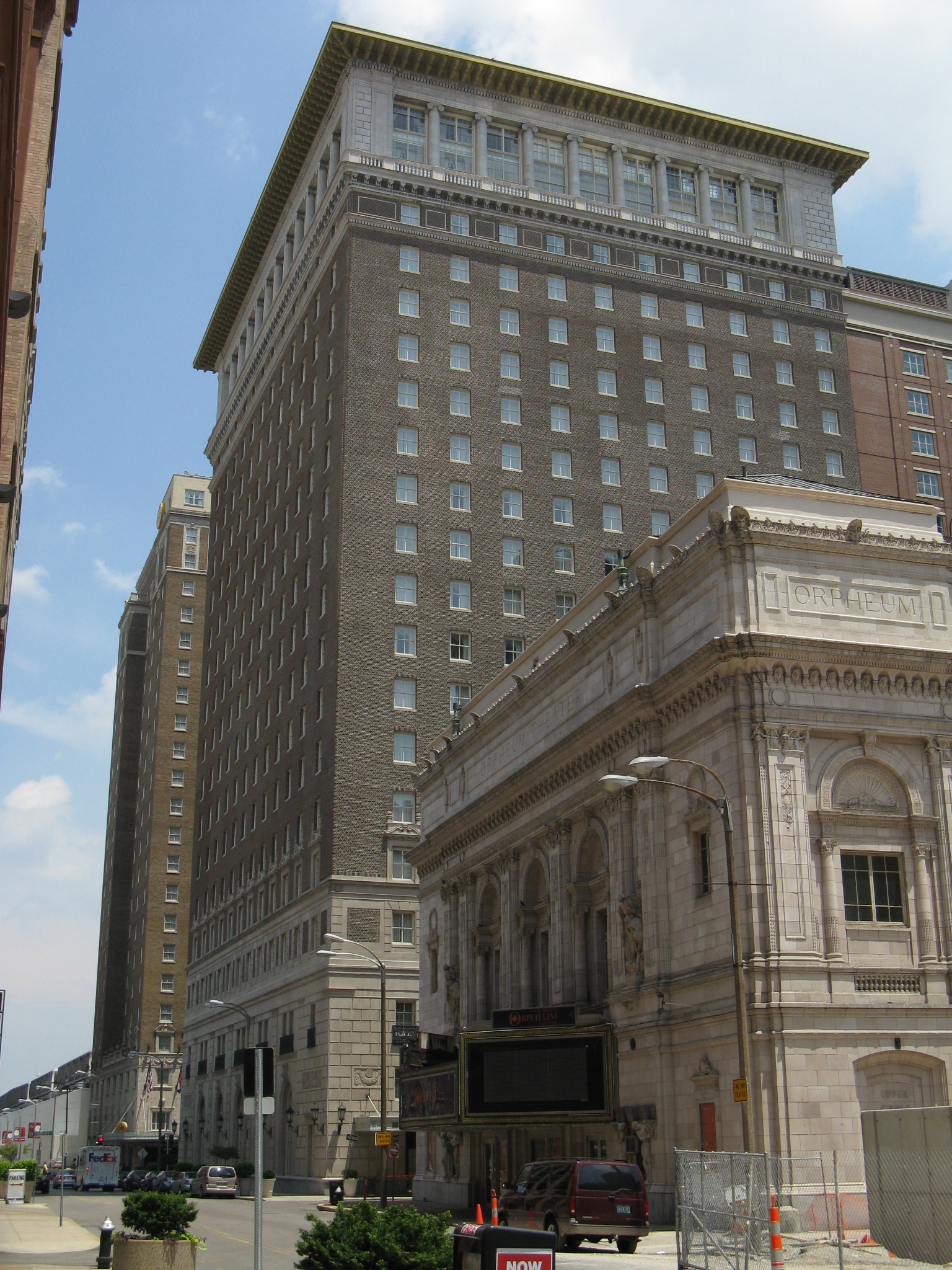 The Hotel Statler in St. Louis, Missouri. The Orpheum Theatre is in the foreground.